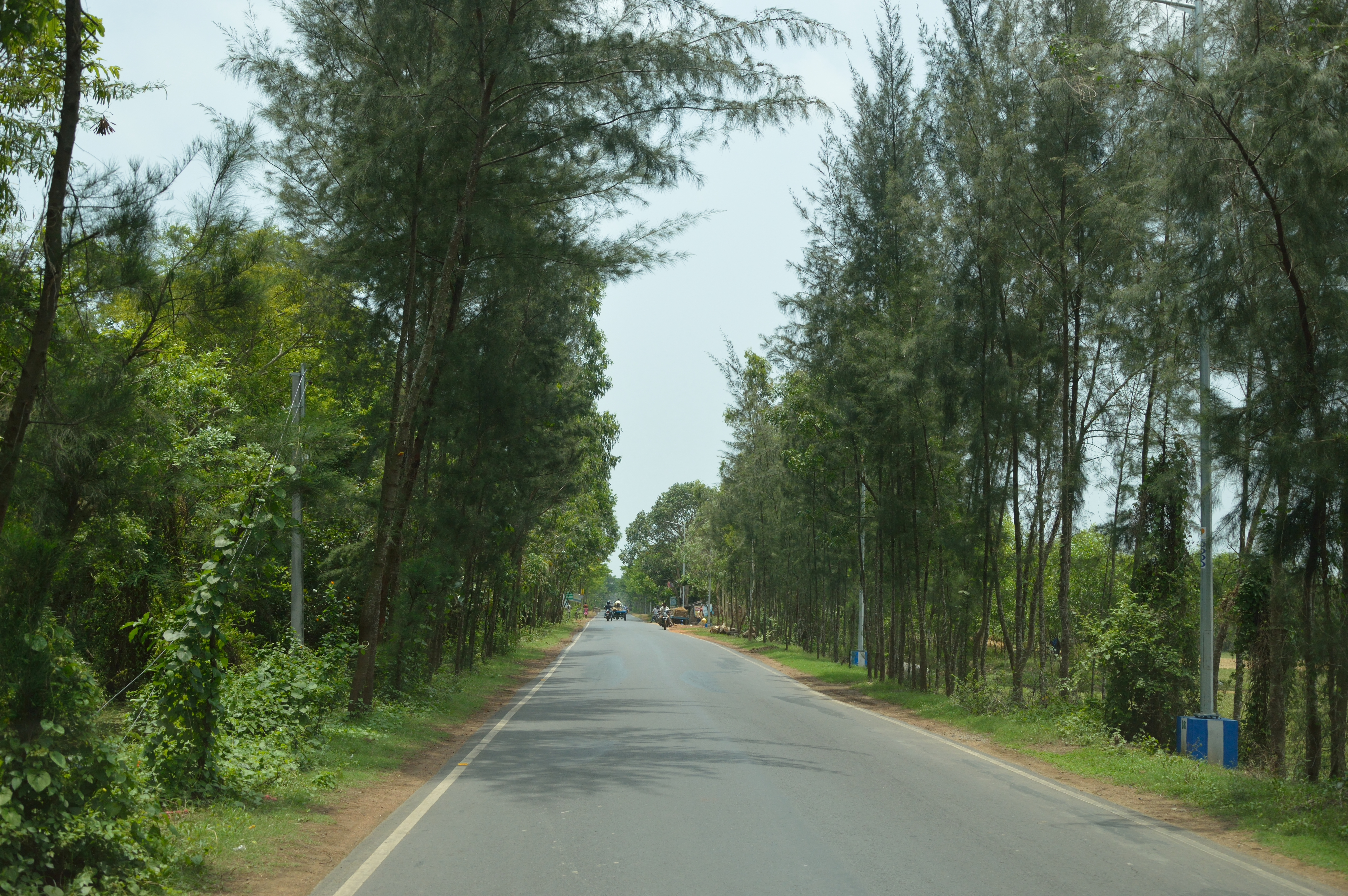 Photographed in West Bengal.